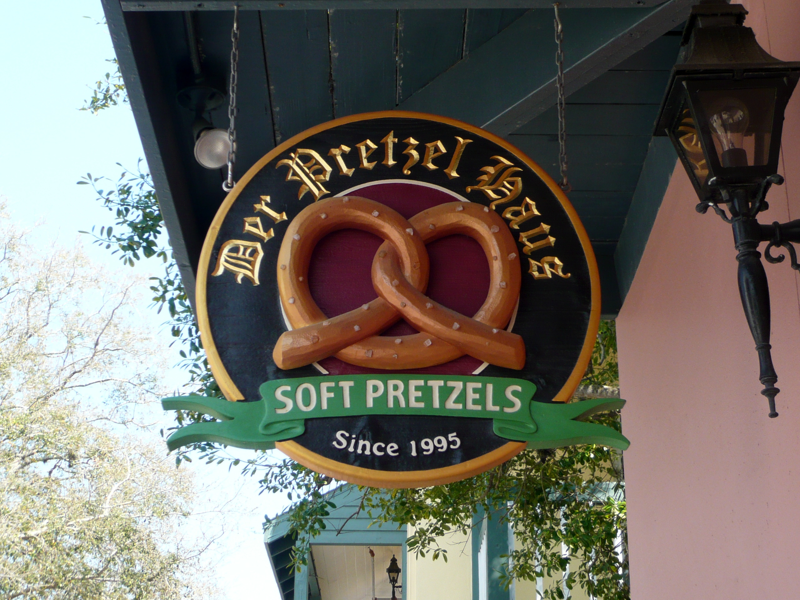 Der Pretzel Haus.